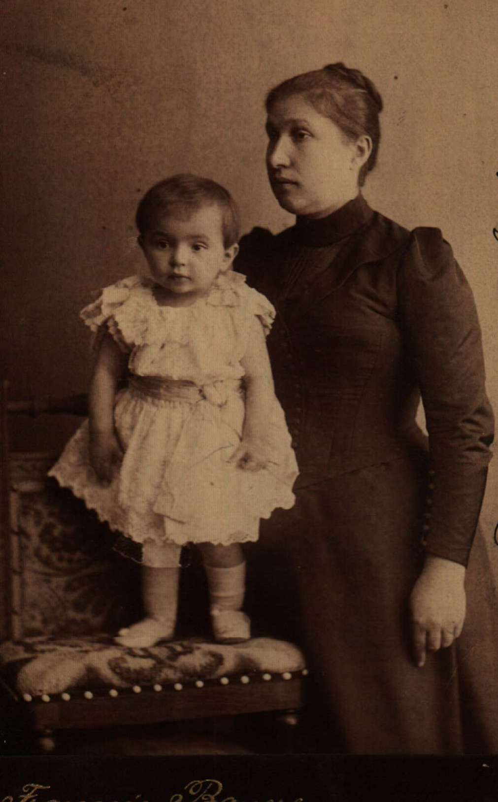 Anastasia Obretenova (1860-1926) and Zaharinka Stoyanova